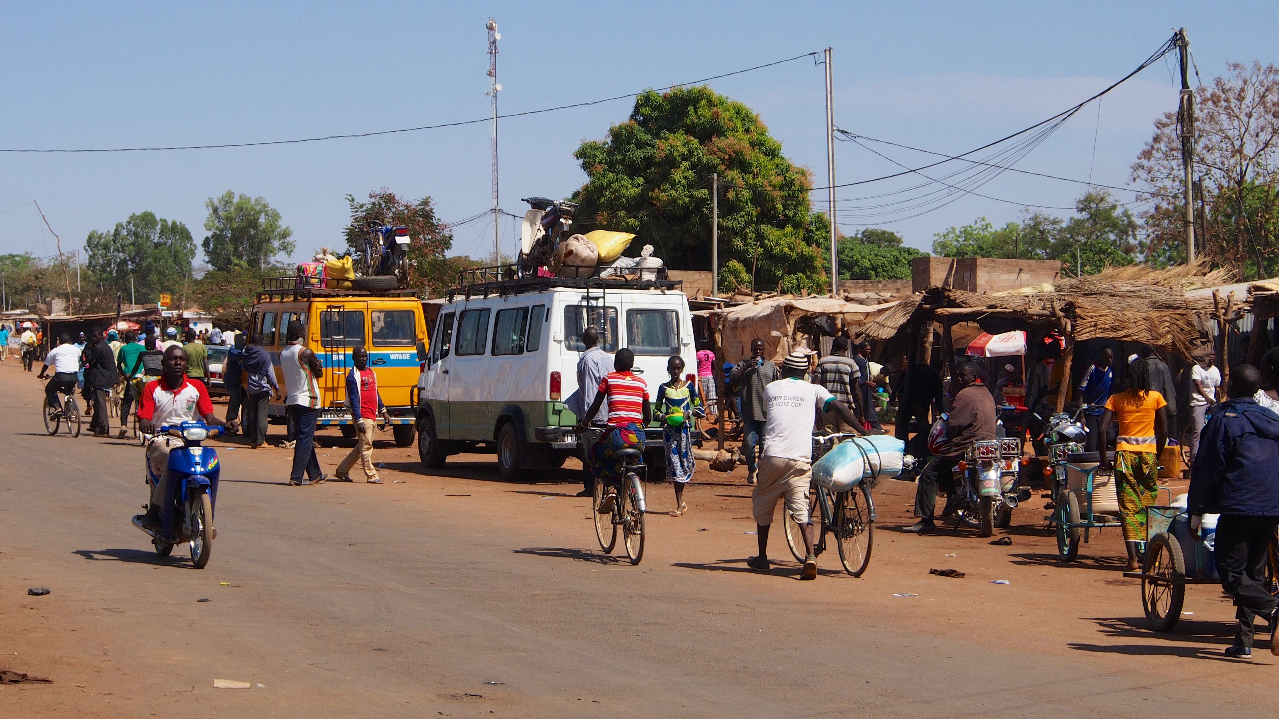 Bus terminal and market street of Sapouy, Ziro Province, Central-West Region, Burkina Faso.